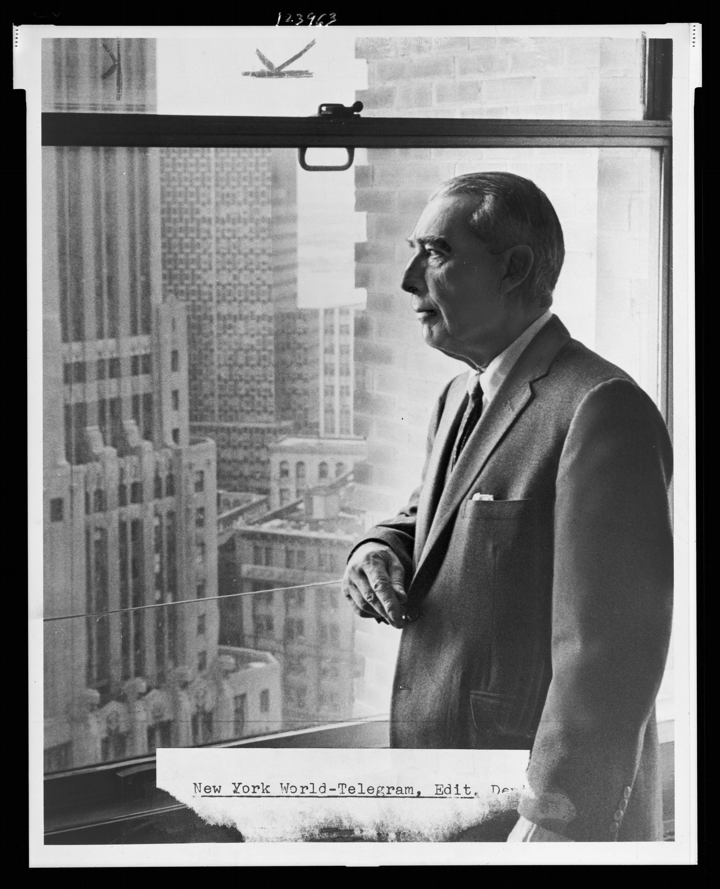 Adolf Augustus Berle: "As a record, I like to think, it isn't bad"